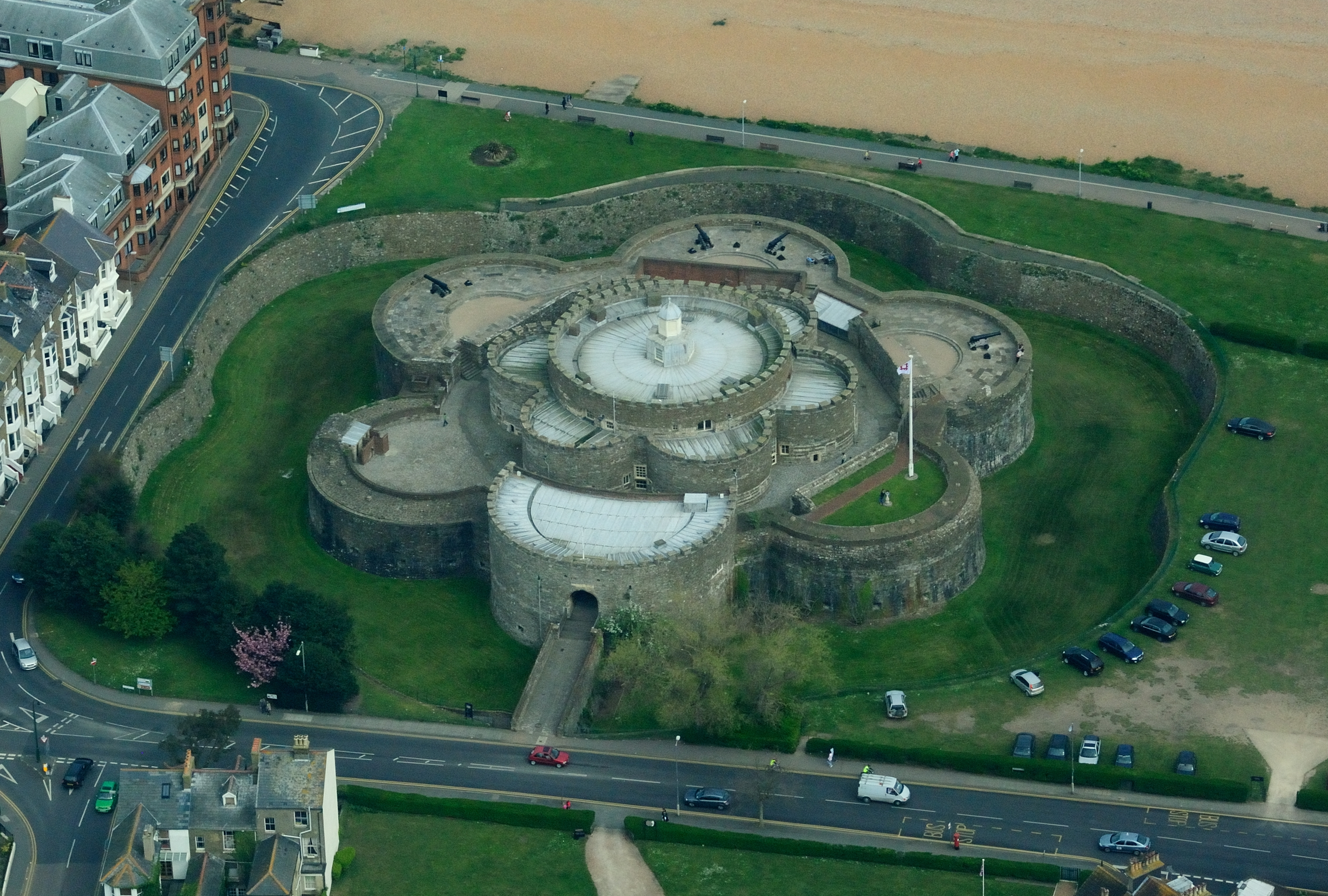 Aerial view of Deal Castle on the East coast of Kent (England). Nikon D60 f=85mm f/9 at 1/1250s ISO 800. Processed using Nikon ViewNX 1.5.2 and GIMP 2.6.6.